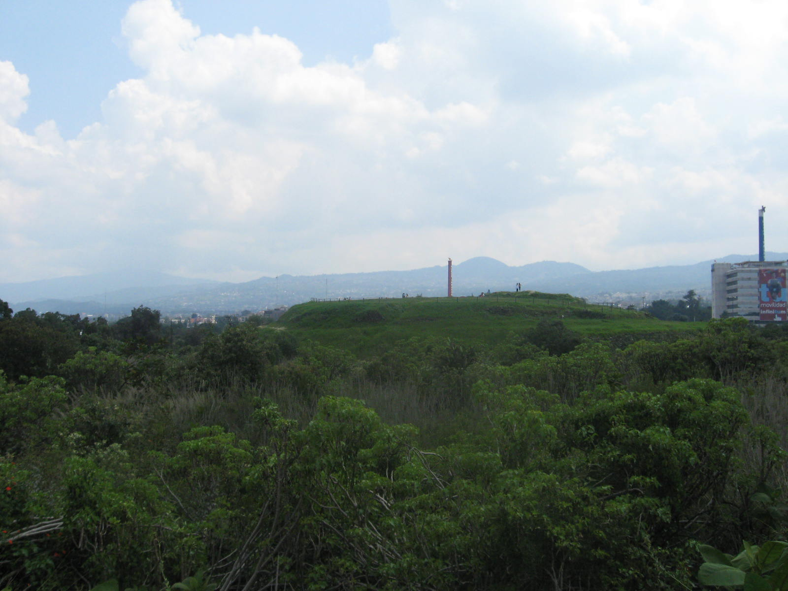 View of Cuicuilco's main circular pyramid looking south from the Anillo Periférico in Mexico City